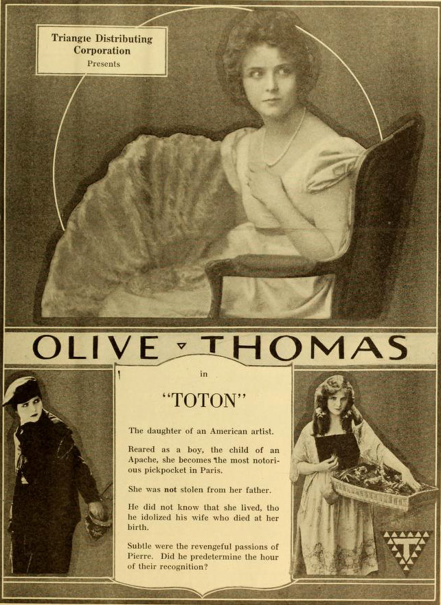 Advertisement in Moving Picture World, March 1919 with Olive Thomas in the film Toton (1919).